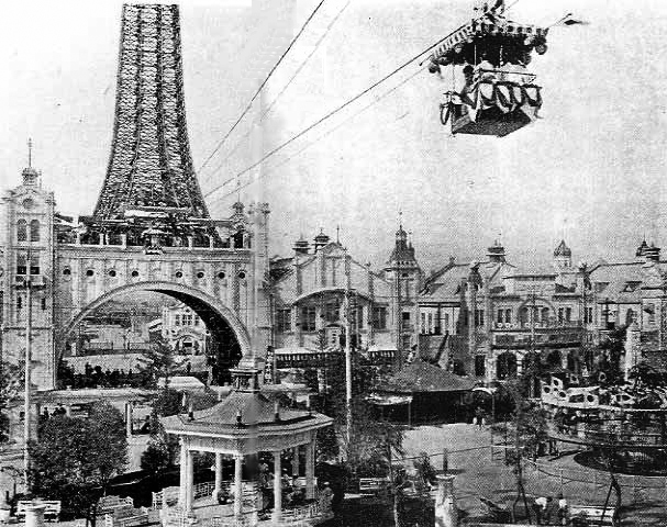 The Original Tūtenkaku, Shinsekai Luna Park, and connecting aerial tramway